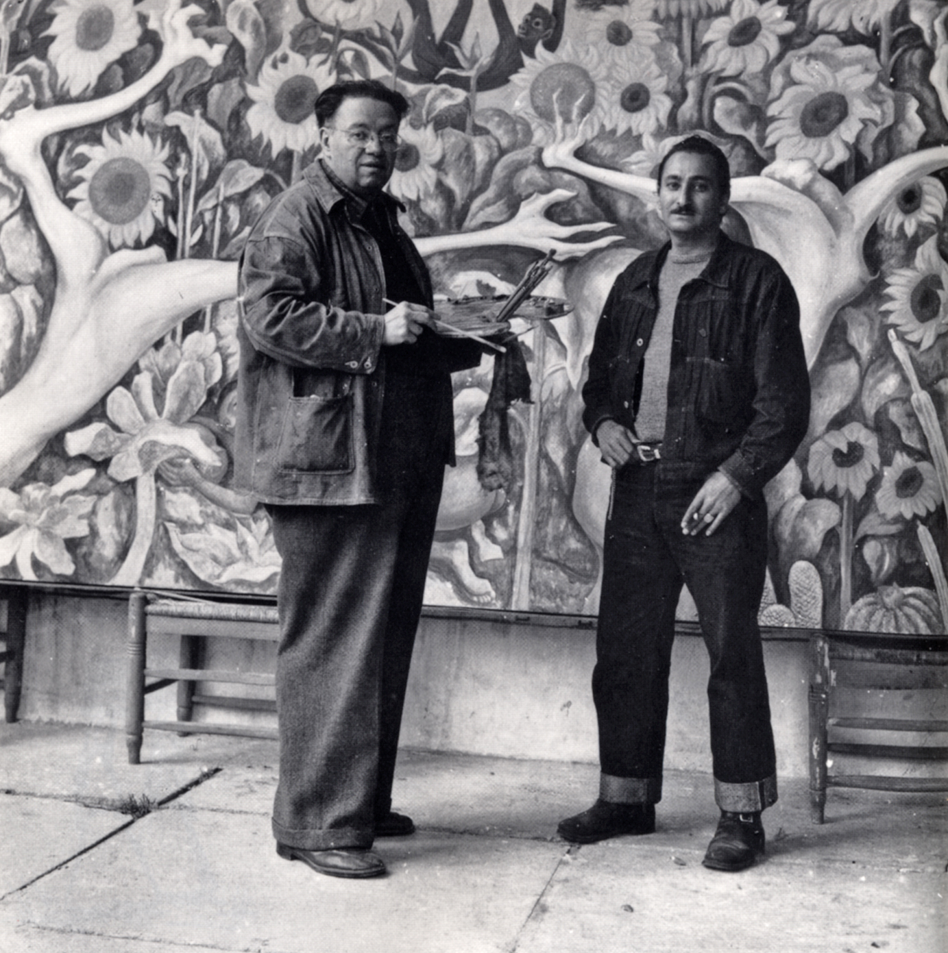 DeGrazia and Rivera, apprenticeship circa. 1942